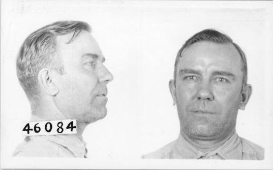 Mugshot of Herbert Allan Farmer, Gangster era Criminal, Alcatraz Inmate.